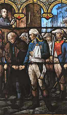 Stained glass window of the Saint-Pauvin church of Le Pin-en-Mauges representing general Charette on his way to execution on March 26, 1796